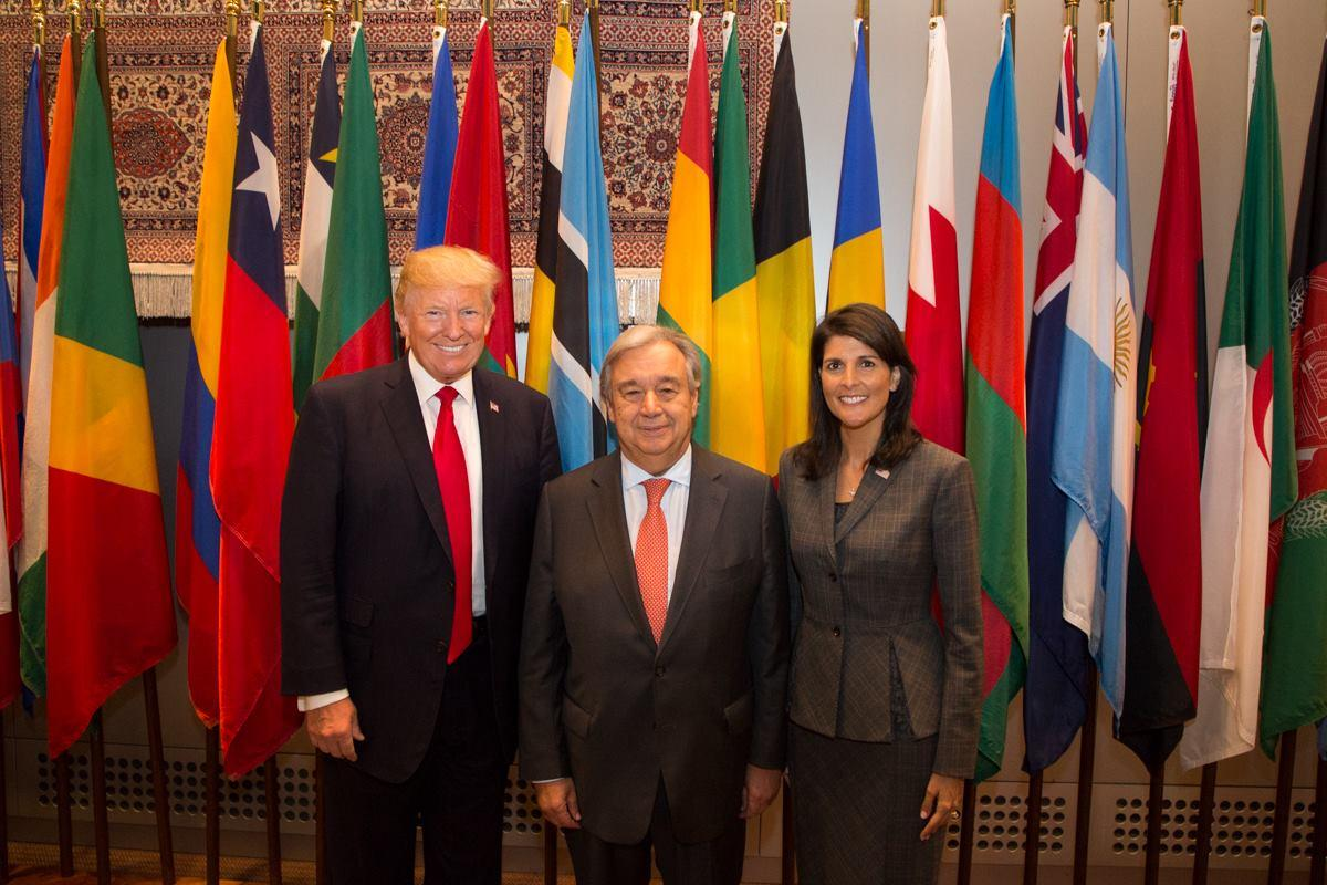 President Donald J. Trump, United Nation Secretary-General António Guterres, and United States Ambassador to the United Nations Nikki Haley at the United Nations General Assembly (Official White House Photo by Shealah Craighead)